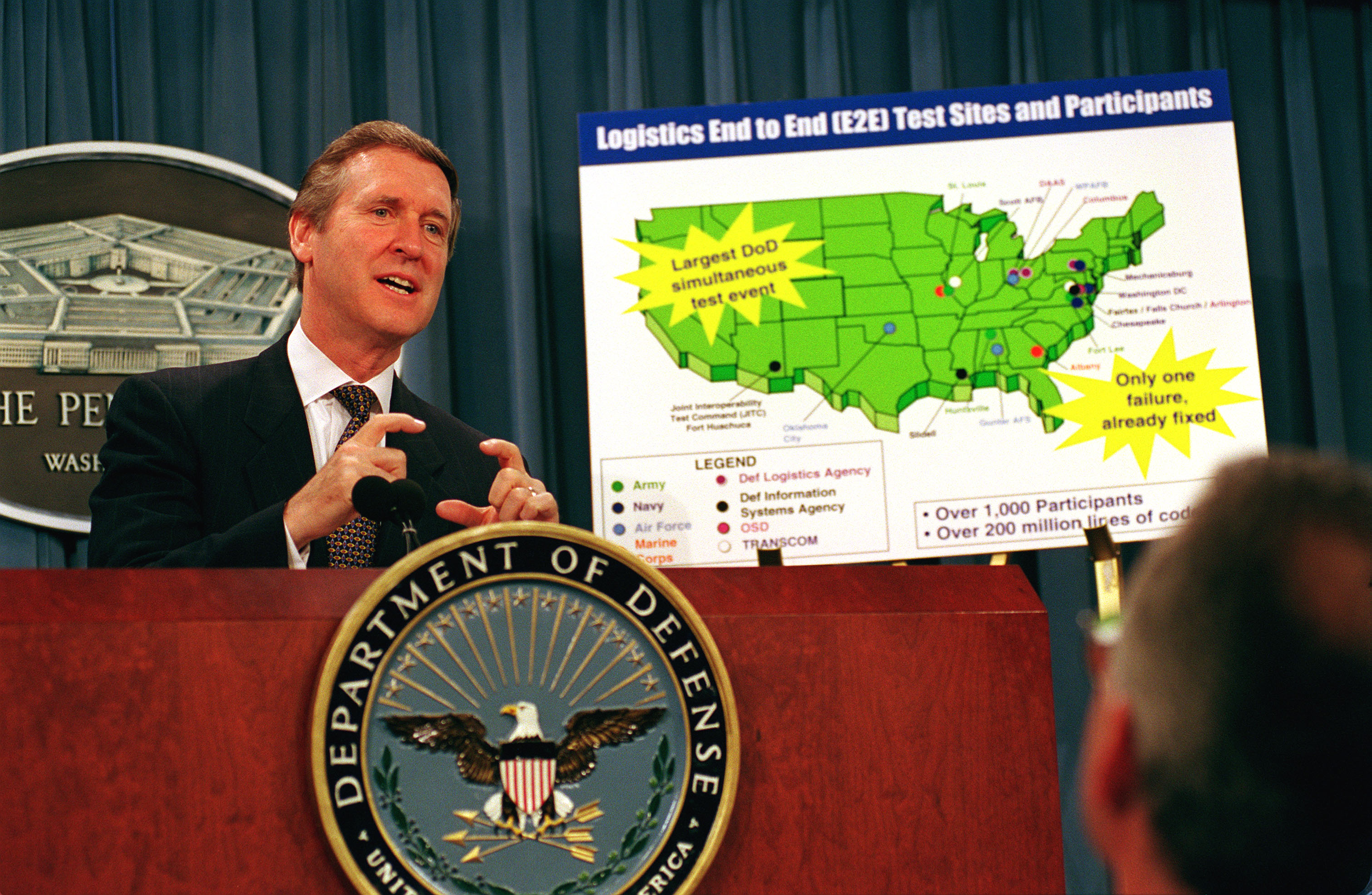 Secretary of Defense William Cohen briefs reporters at the Pentagon on July 22, 1999, on a test of the DoD logistics system conducted the previous week to check for Y2K problems. The exercise included over 1,000 participants from the Defense Logistics Agency and all four armed services. It linked 22 sites across the United States and involved approximately 200 million lines of computer code. The test revealed only one failure, which has since been fixed. Cohen reported that as of today, 94 percent of all systems have been tested, fixed and tested again to ensure proper performance. Cohen said that all mission-critical systems will be ready before the new year.